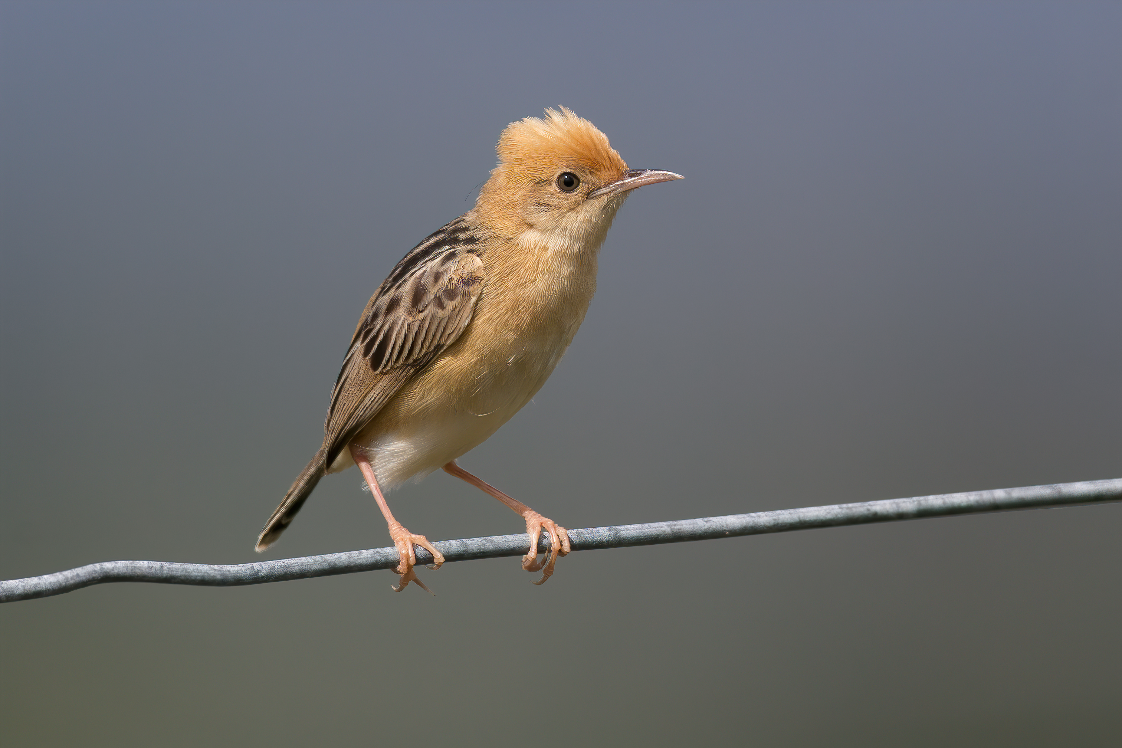 Golden-headed Cisticola (Cisticola exilis), Cornwallis Rd, New South Wales, Australia